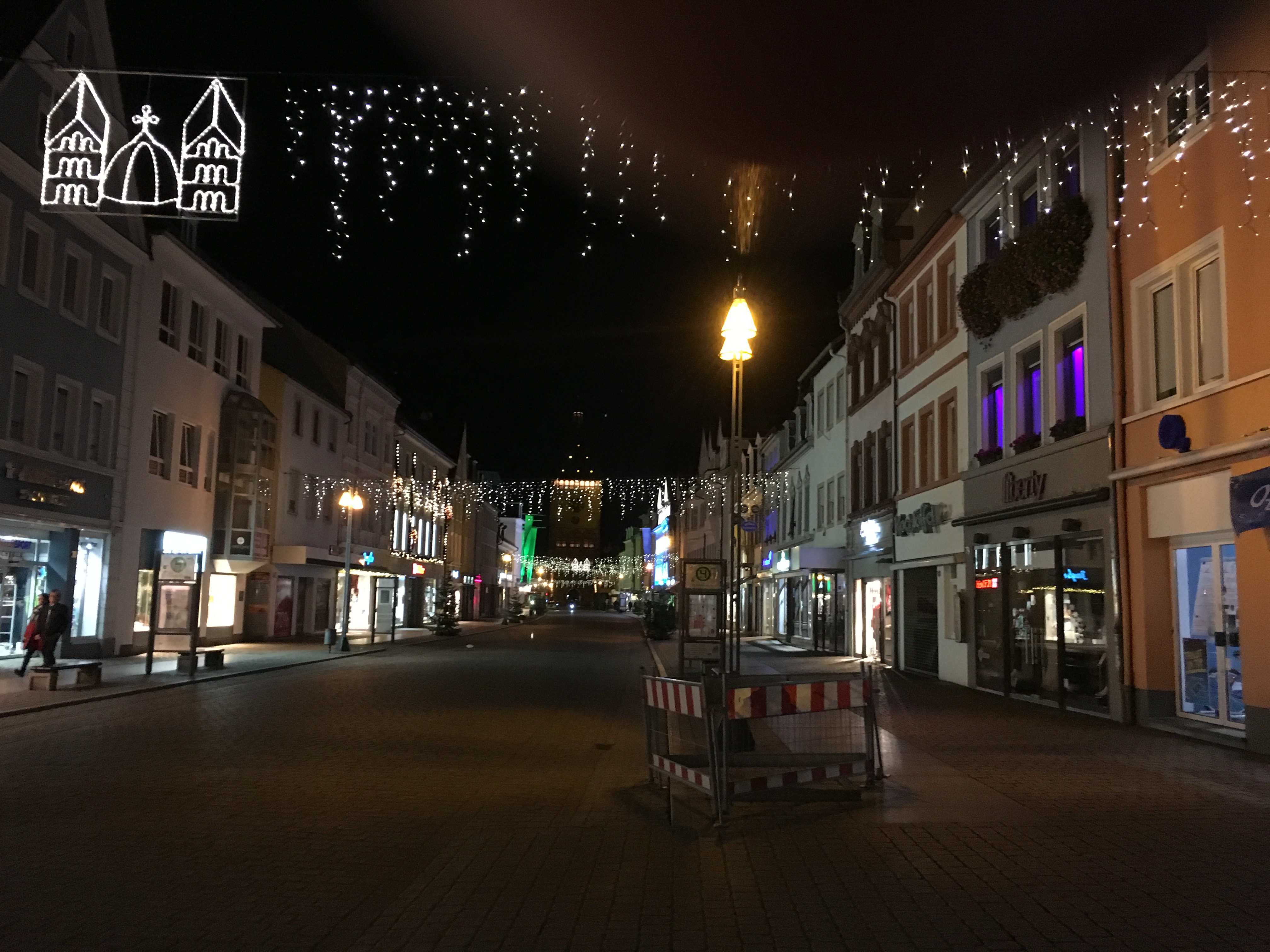 Christmas decoration Maximilianstraße in Speyer